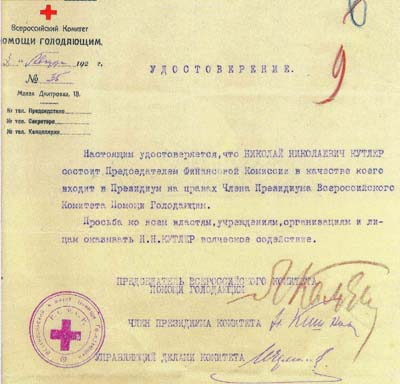 Certificate issued by the Pomgol to N.N. Kutler